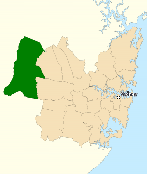 This image incorporates data that is: © Commonwealth of Australia (Australian Electoral Commission) 2009 Division of Lindsay 2010